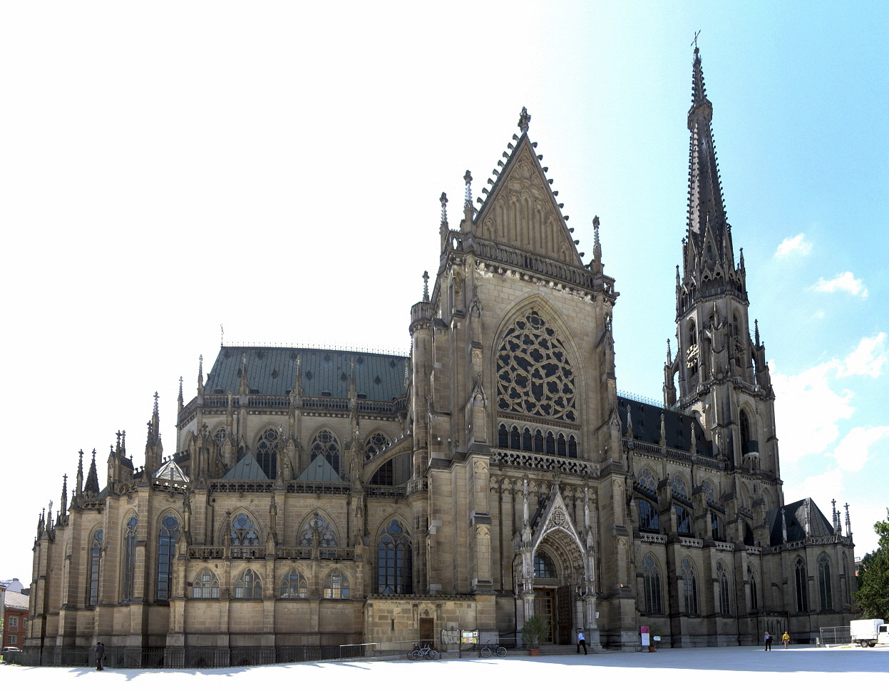 Austria, Linz, New Cathedral